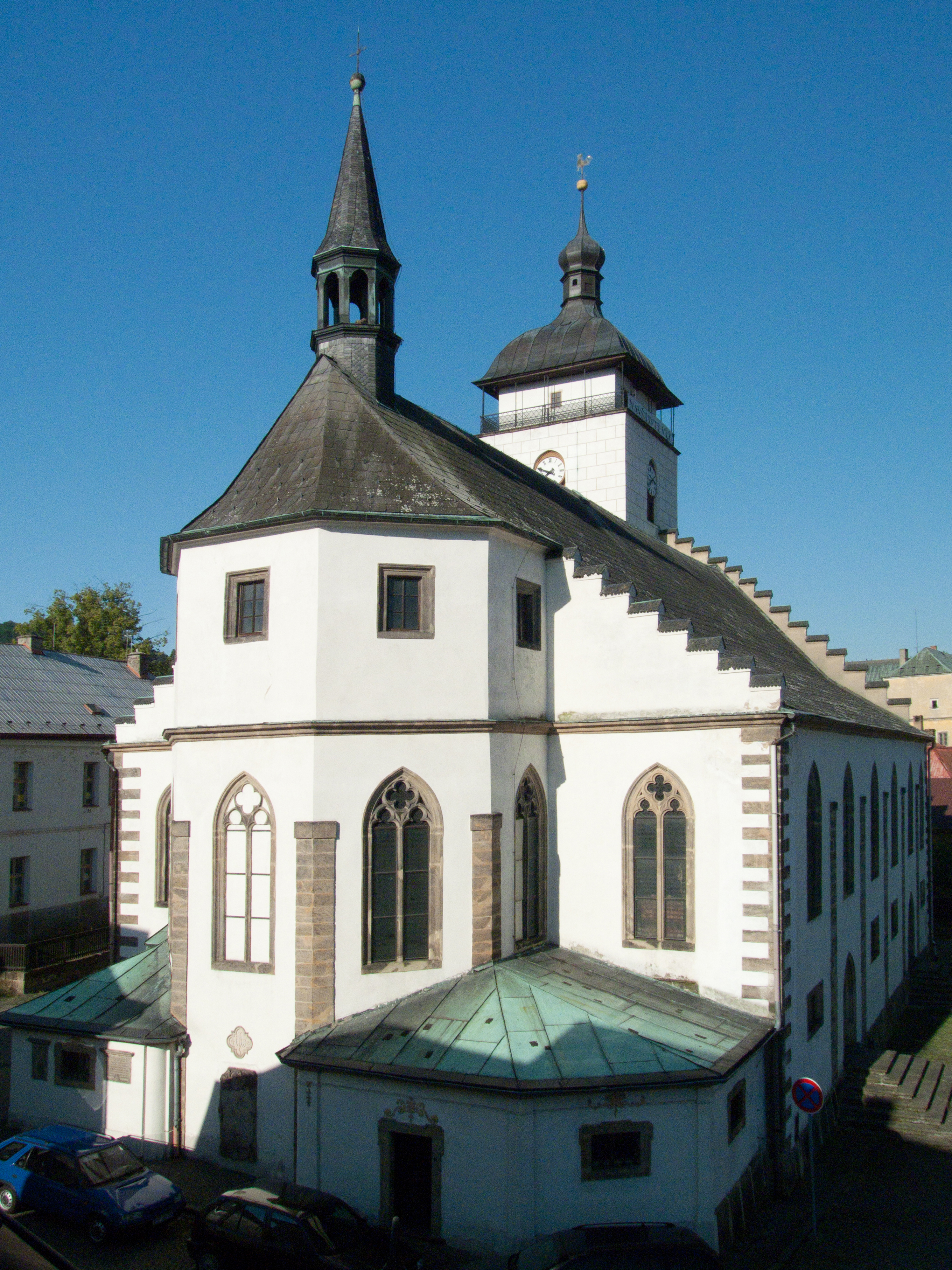 Saint James the Greater church in the town of Česká Kamenice, Ústí nad Labem Region, (Czech Republic)